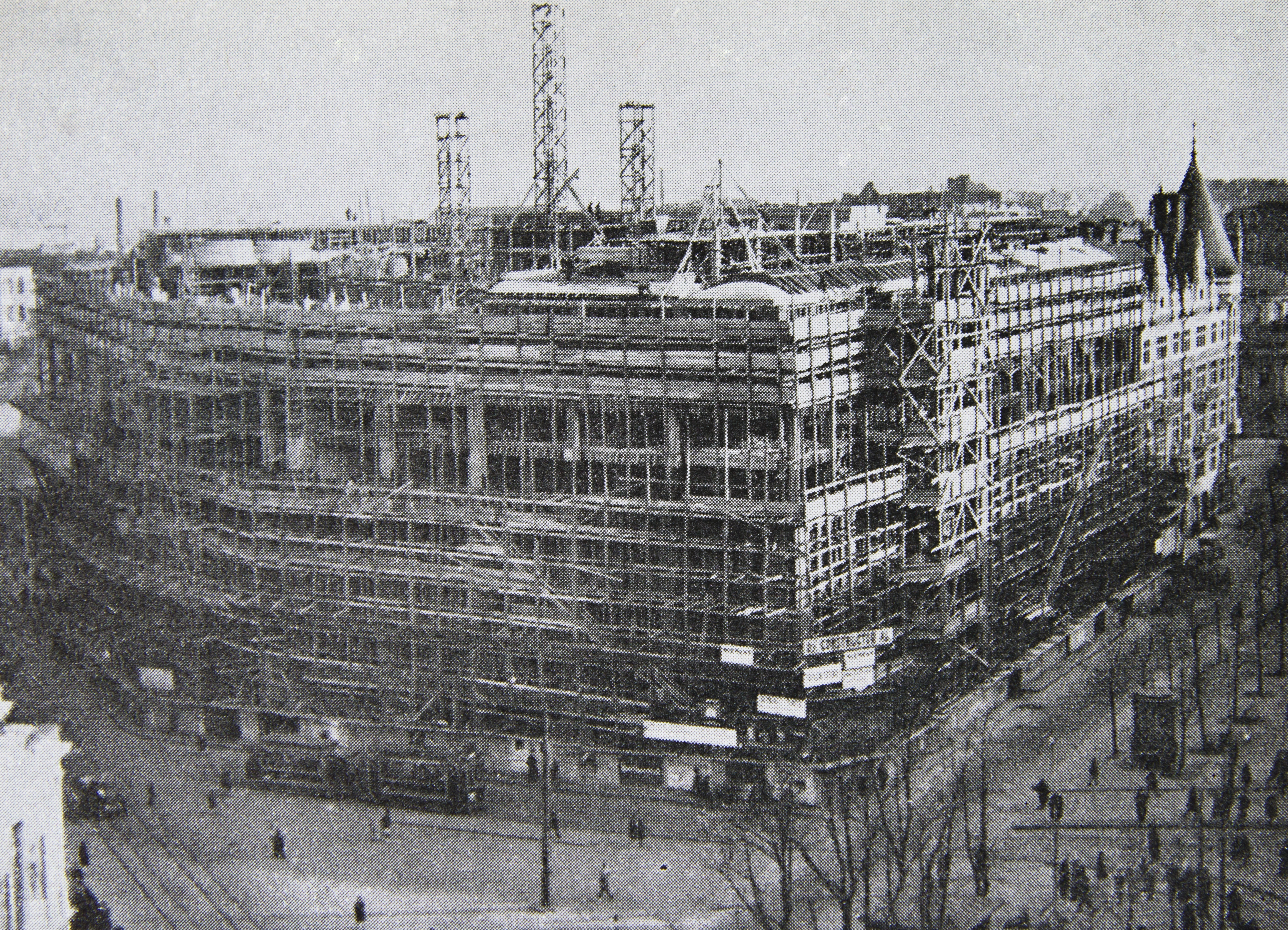 Stcokmannin department store in the second phase of construction